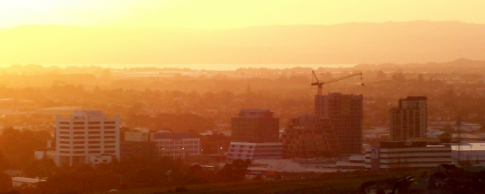 Skyline of Manukau City, New Zealand. Looking over the city centre to the northwest.